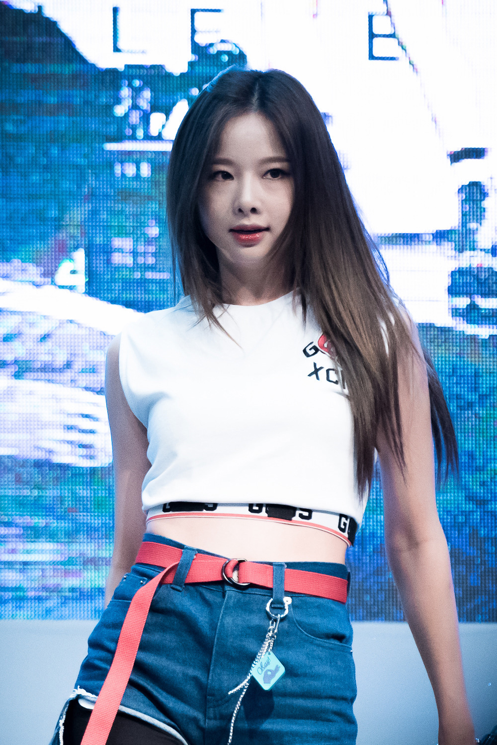 Heo Sol-ji performing at KBS Cool FM on July 14, 2016.